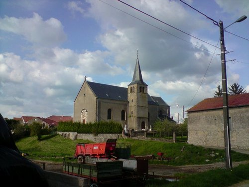 Picture of St Michel's church.